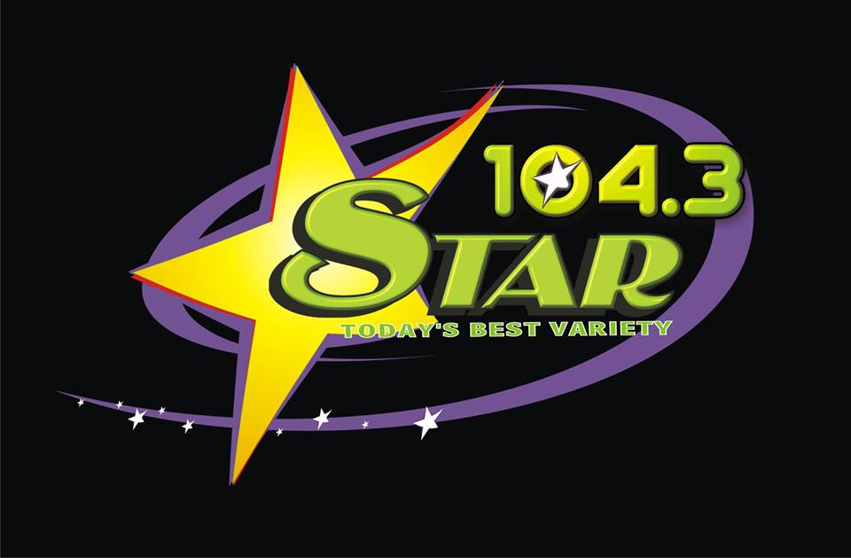 KCAR-FM logo from October 18, 2012- January 30, 2019